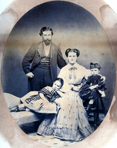 Manuel Rafael García Aguirre junto a su esposa Eduarda Mansilla y sus hijos Eduarda García-Mansilla y Manuel José García-Mansilla